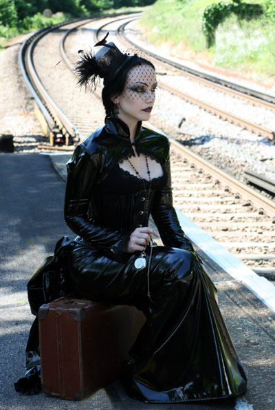 Gothic Model Lady Amaranth wearing Nightshade Clothing photographed by Gothindulgence